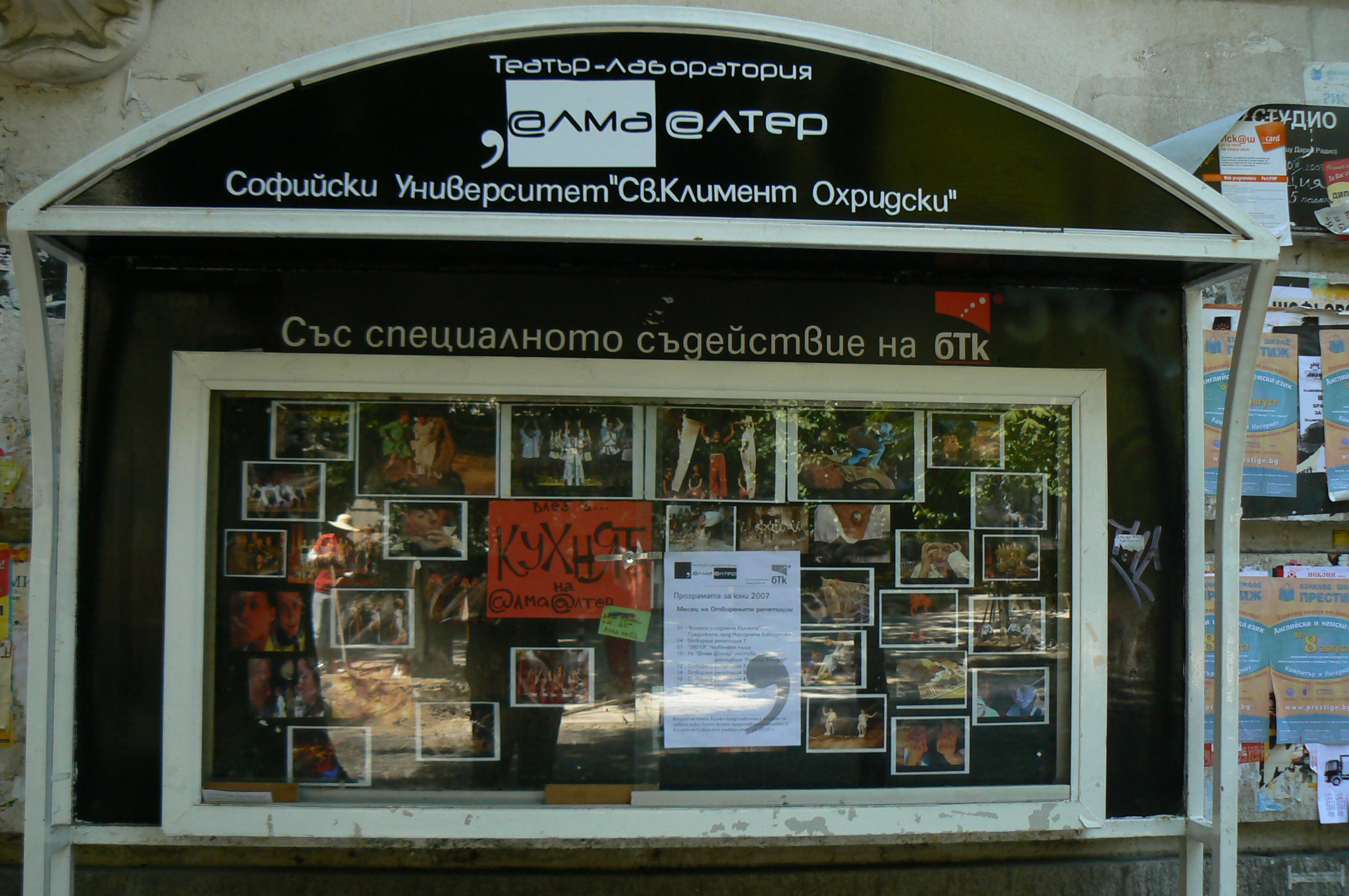 Noticeboard of the Sofia university study theatre "Alma Alter"